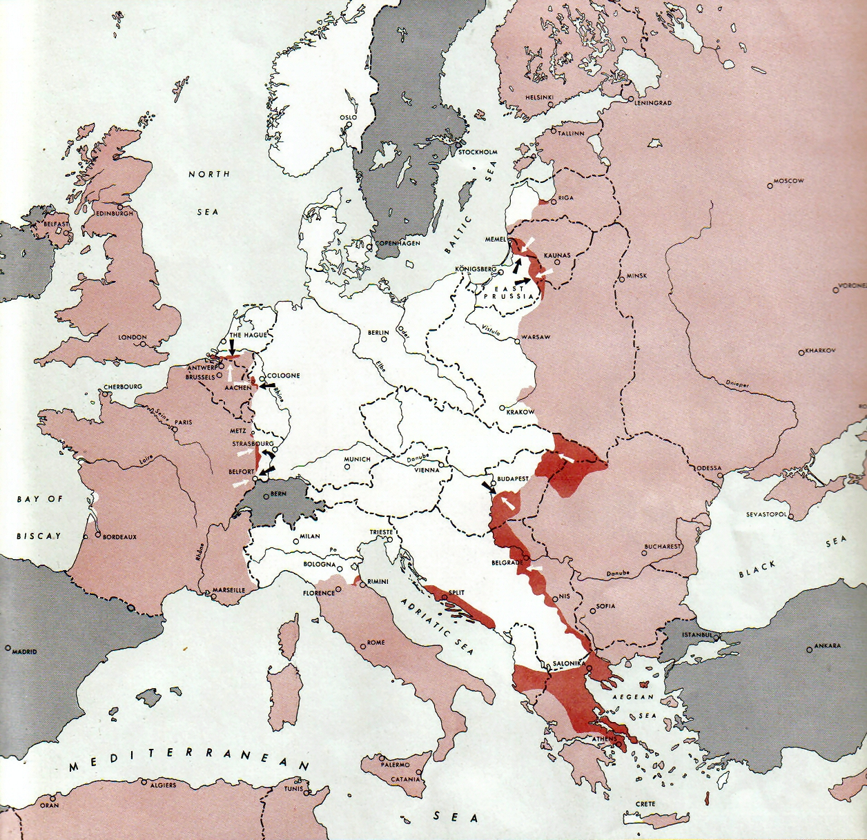 Map of the front against Germany: This map is taken from the source "Atlas of the World Battle Fronts in Semimonthly Phases to August 15th 1945: Supplement to The Biennial report of The Chief of Staff of the United States Army July 1, 1943 to June 30 1945 To the Secretary of War". (See Cover, Forward and Map details)